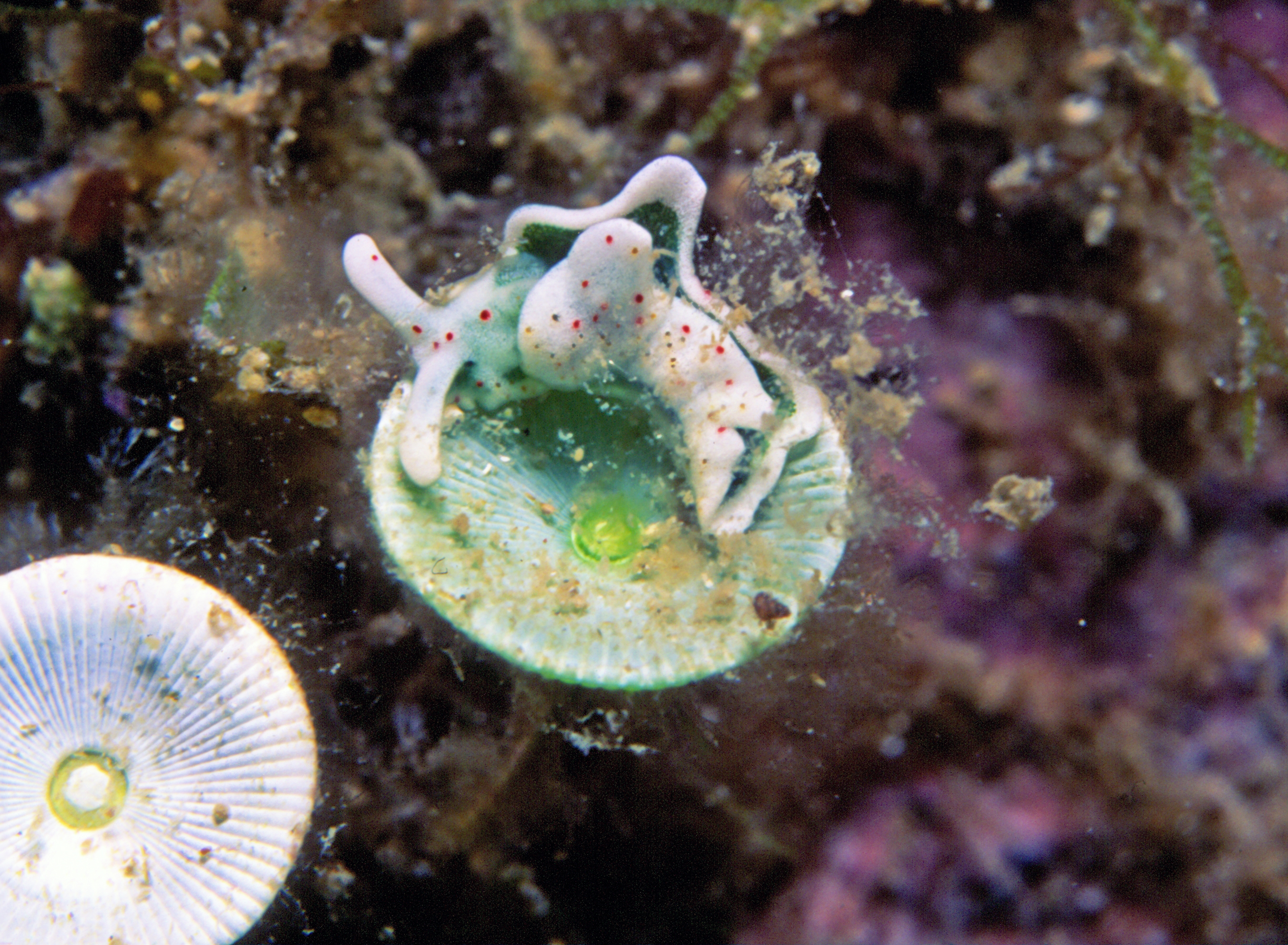 Elysia timida feeding the green alga Acetabularia acetabulum - obs. pers. - Banyuls-sur-Mer : 07/2001